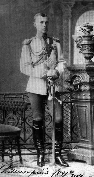 Grand Duke Dimitri Constantinovich of Russia